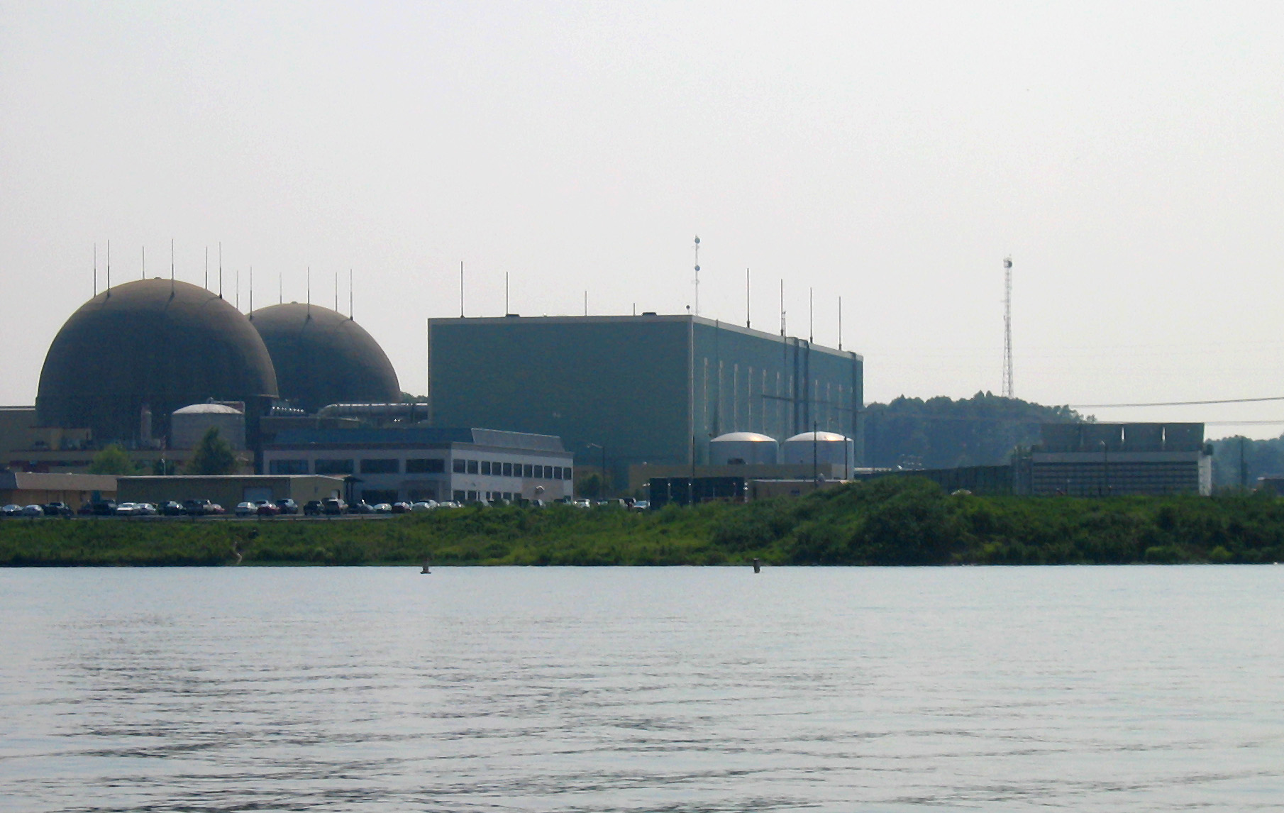 View of North Anna Nuclear Generating Station, Louisa County, Virginia. Retouched photo.